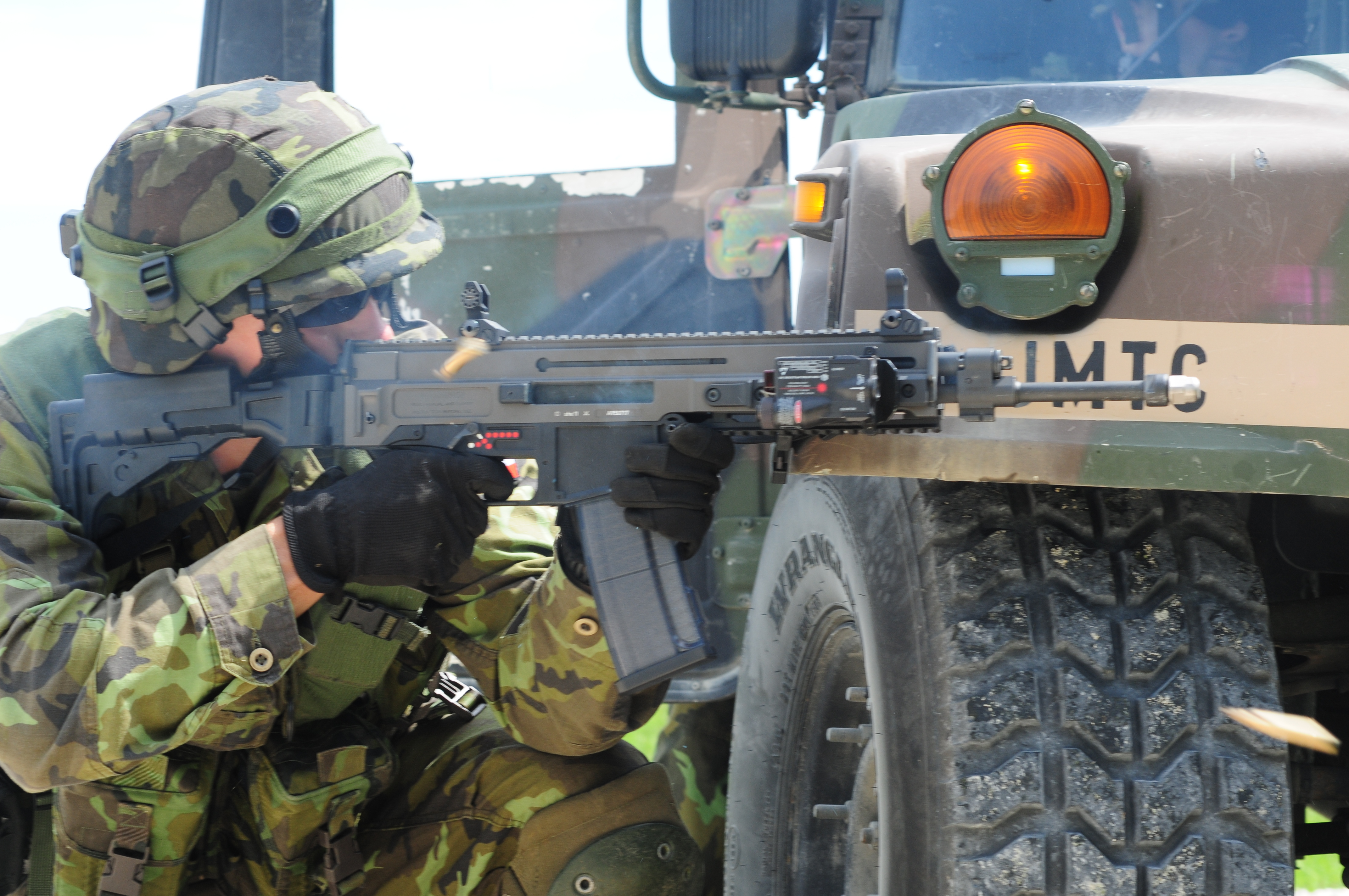 A Czech Republic soldier fires his CZ-805 BREN assault rifle at enemy combatants during an Operational Mentor Liaison Team training exercise at the Joint Multinational Readiness Center in Hohenfels, Germany, May 11, 2012. OMLT 23 and Police Operational Mentor Liaison Team 7 training are designed to prepare teams for deployment to Afghanistan with the ability to train, advise, and enable the Afghan National Security Force in areas such as counterinsurgency, combat advisory, and force enabling support operations.